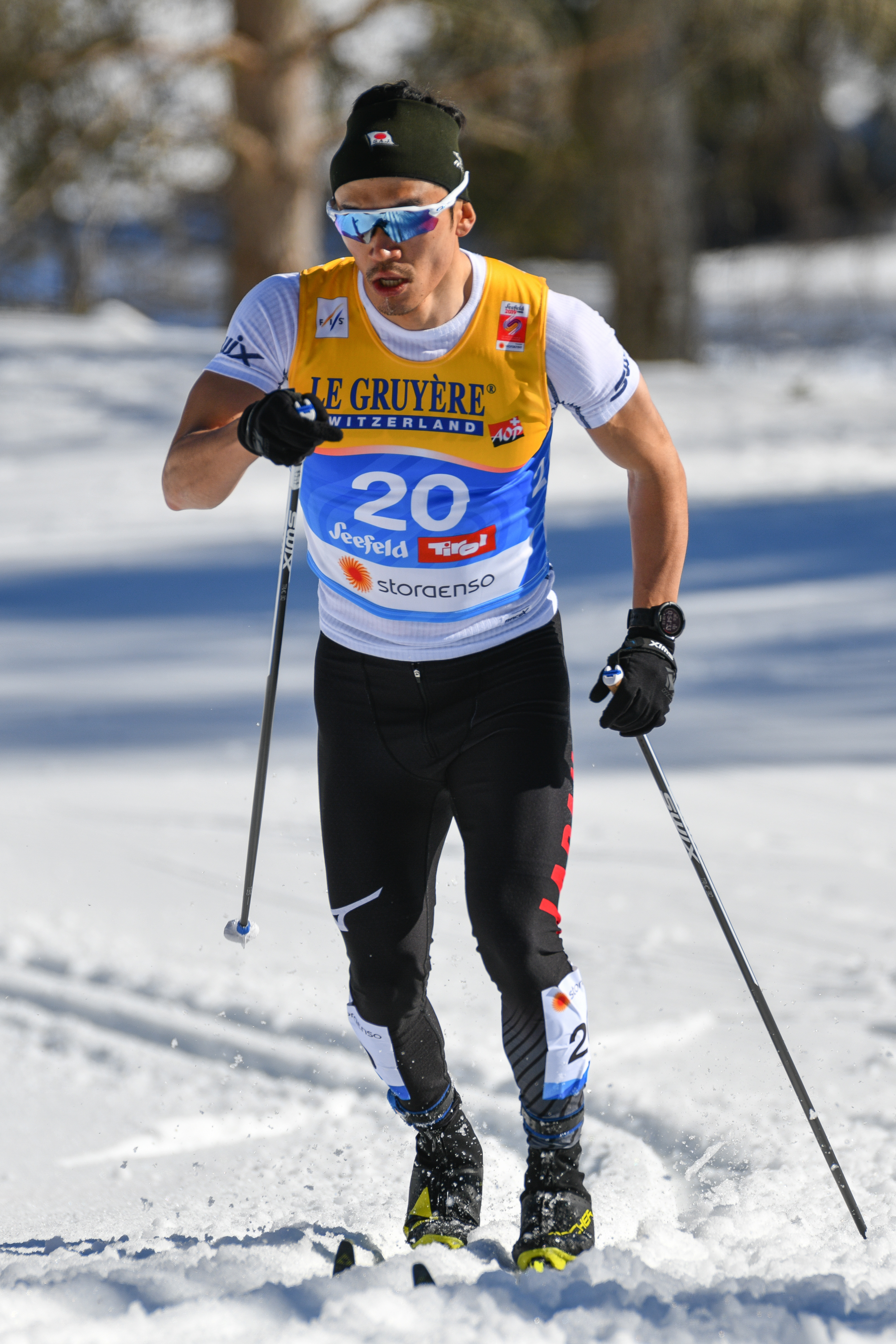 FIS Nordic Wolrd Ski Championships Seefeld 2019 - Men 15km Interval Start Classic. Picture shows Hiroyuki Miyazawa (JPN).